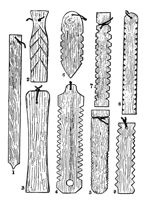 Bull-Roarers from the British Isles.